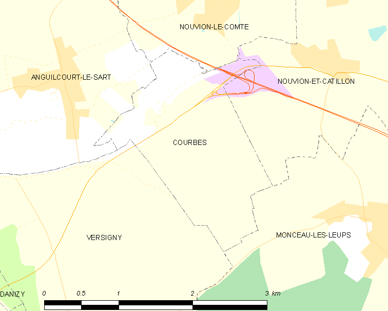 Map of French commune: Courbes Map commune FR insee code 02222.png